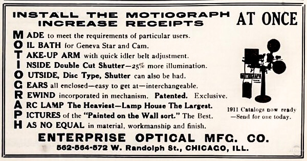 Screenshot of page with advertisement for Motiograph projector published in the trade publication The Film Index (New York, N.Y.), May 20, 1911, p. 27. Ad Includes silhouette of the company's most up-to-date projector for purchase by theater owners.